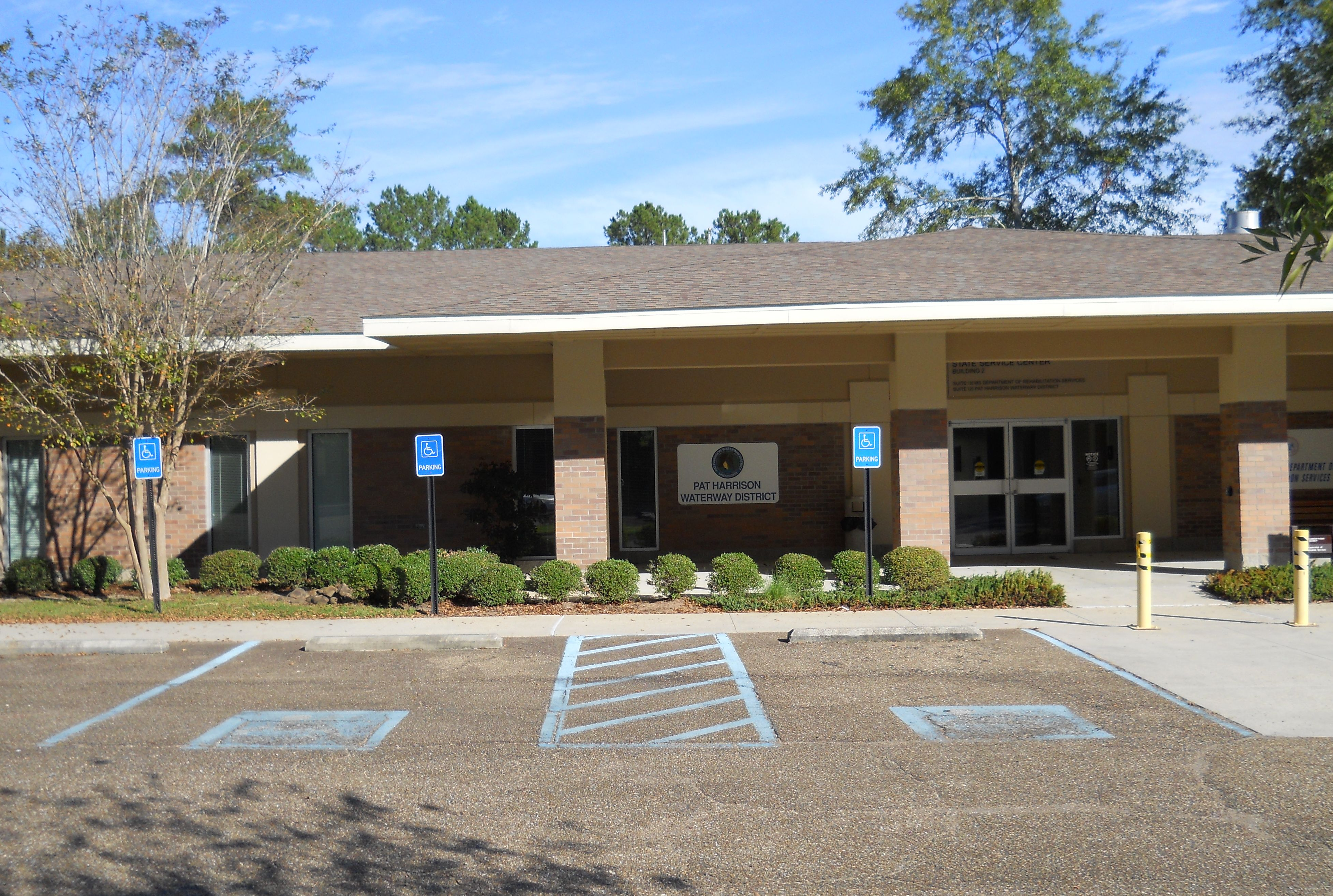 Office Building for Pat Harrison Waterway District located at 17 J M Tatum Industrial Drive, Hattiesburg, Mississippi